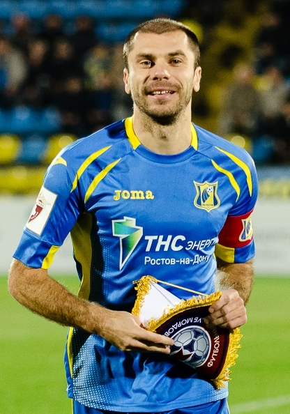 Timofei Kalachev